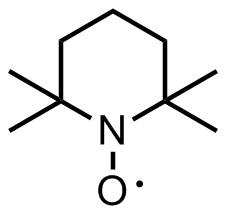 TEMPO molecule used to functionalize the chain ends